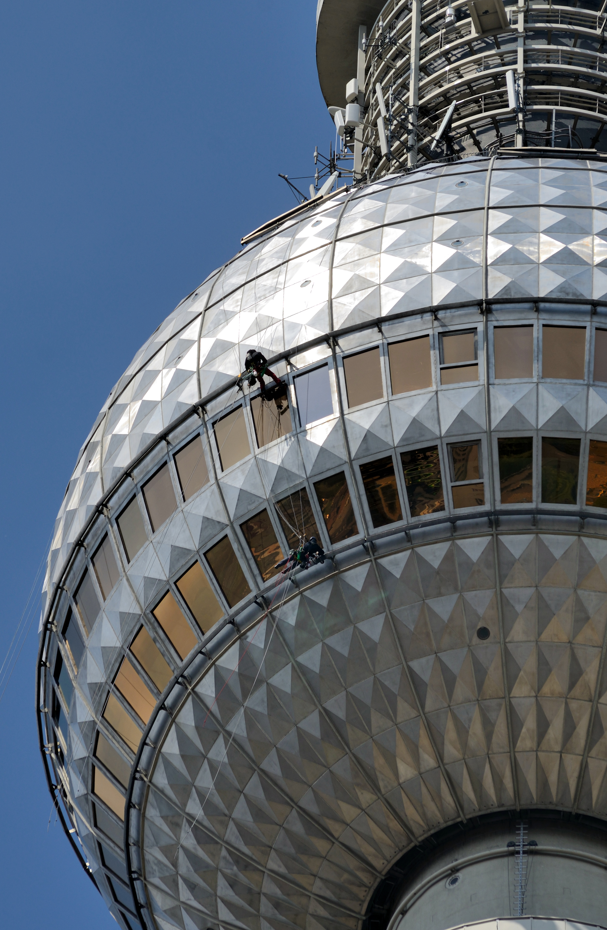 Berlin TV Tower: window cleaning at main pod